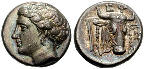 Euboea, Euboian League, 304-290 BC. Silver drachma (16mm, 3.51 gm). Reduced Attic standard. Head of the nymph Euboia left / EY(ΒΟΕΩΝ) "of Euboeans", bull's head right; kantharos to right.